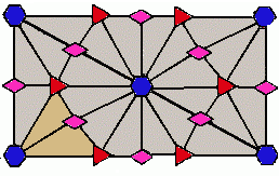 Cell diagram for wallpaper group type p6. Clipped version of Image:Wallpapercellp6.gif:en:Image:Wallpapercellp6.gif.